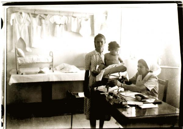 A nurse weighing a baby in a well-baby clinic (tippat- ħaláv), while the mother is watching, in Petah Tikva during the 30ies.